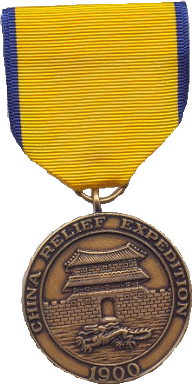 China Relief Expeditionary Medal